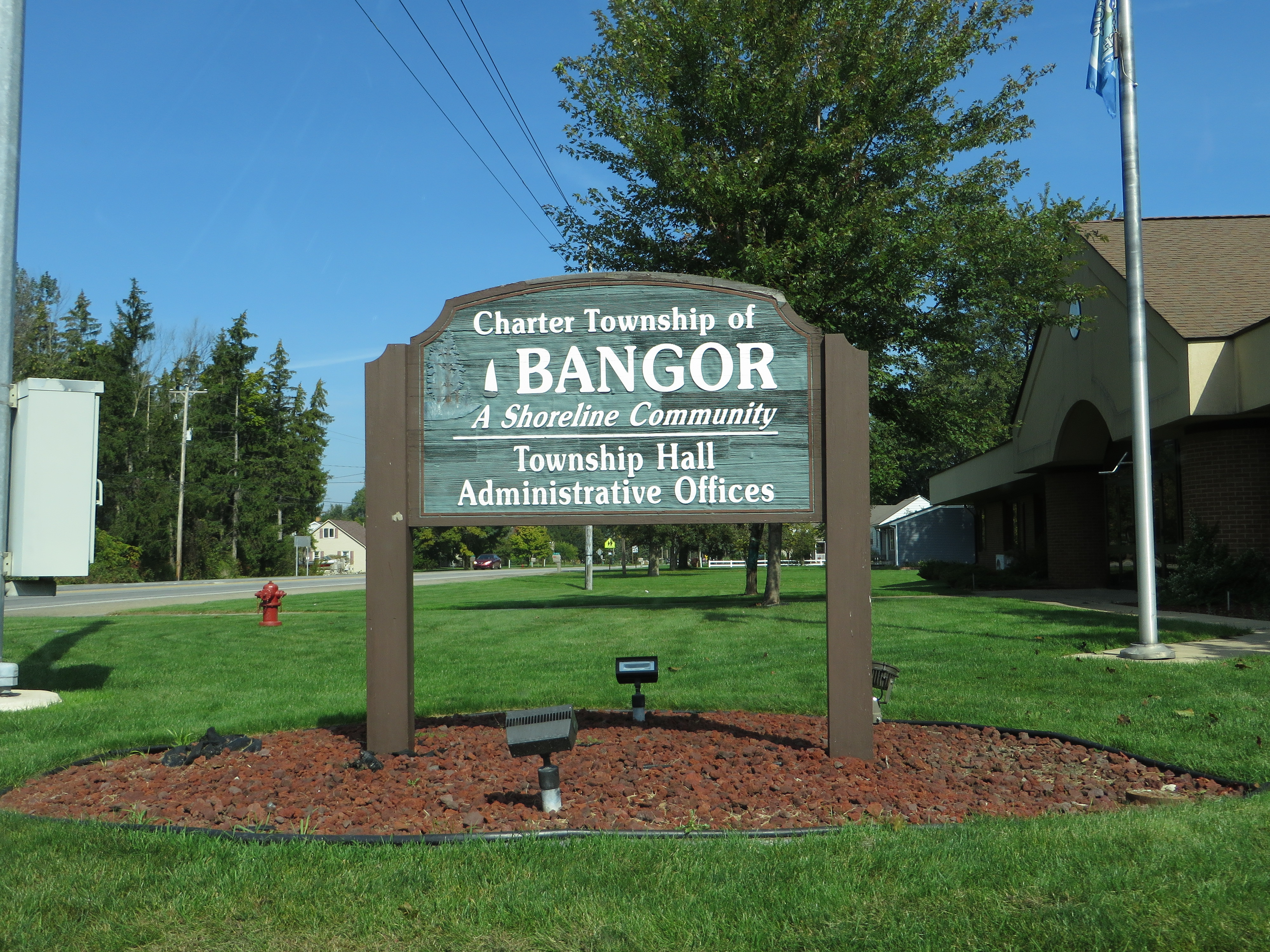 Bangor Charter Township is a charter township of Bay County in the U.S. state of Michigan. The township's population was 14,641 as of the 2010 Census and is included in the Bay City Metropolitan Statistical Area. Joseph Trombley in 1834 purchased Bangor township's section 16 from the government which was the being of the Bangor settlement. Bangor was platted in 1851 and was renamed Banks in 1864. In 1871, Banks became an incorporated village while Wenona was platted. In 1873, the Township consisted of about 10 sections. The community of Bangor in 1873 was served by the Banks Post Office which opened on May 18, 1864. The Banks Post Office was closed on May 1, 1866. On Nov 17, 1870, the Banks Post Office was reopened. By 1873, Wenona was served by a post office with the same name. The City of West Bay City, also known as West Bank City, was formed in 1877 by the state legislature consolidating the communities of Banks, Salzburg, and Wenona.